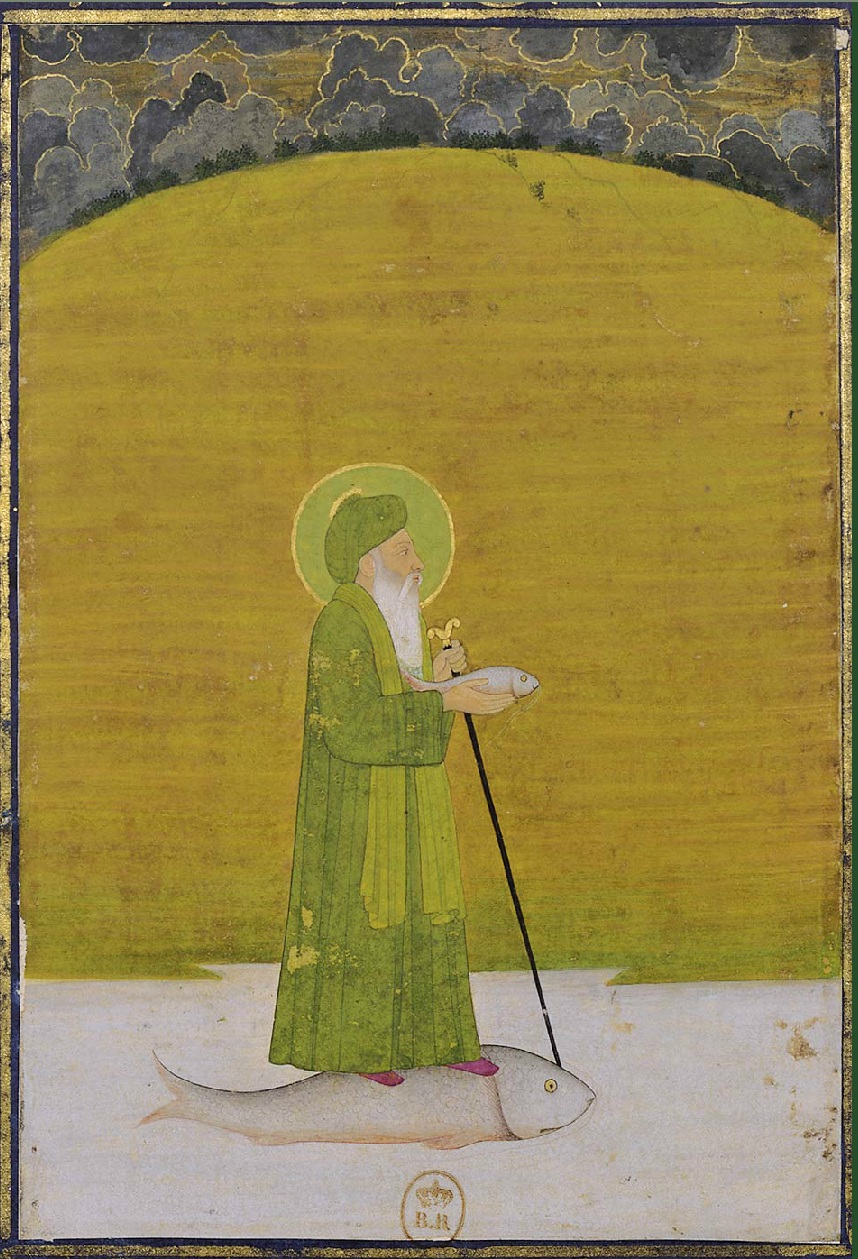 42 The prophet Khizr Khan Khwaja ca. 1760 Bibliothèque nationale de France, Paris